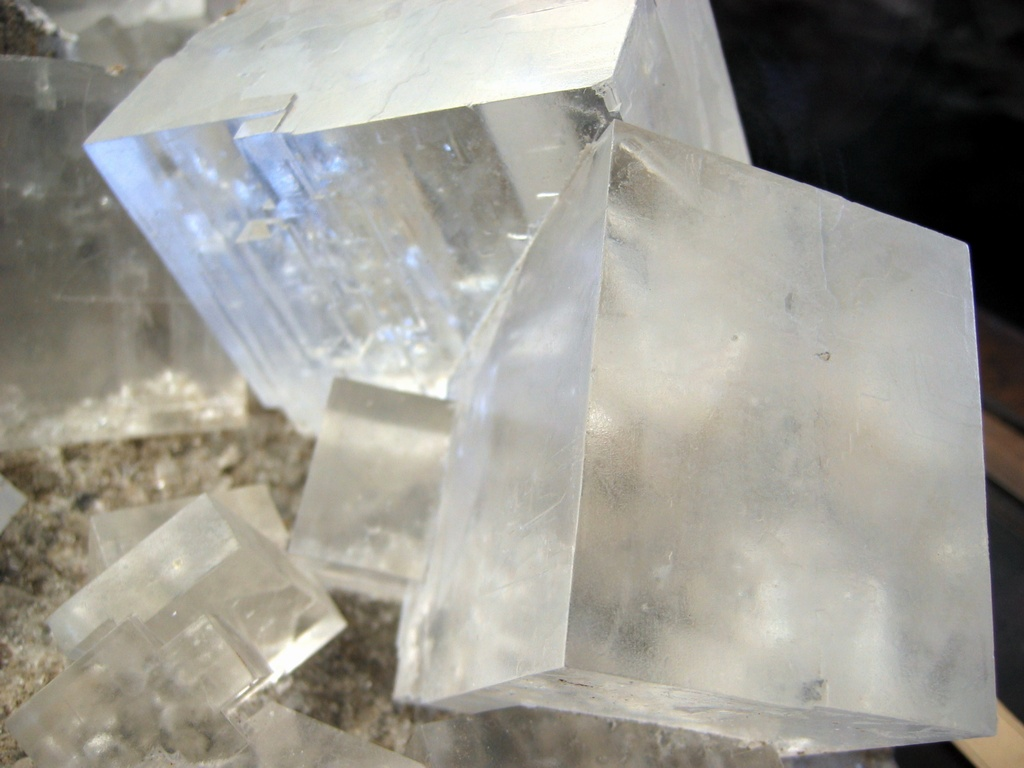 A macro shot of salt crystals taken in the Natural History Museum of Vienna.